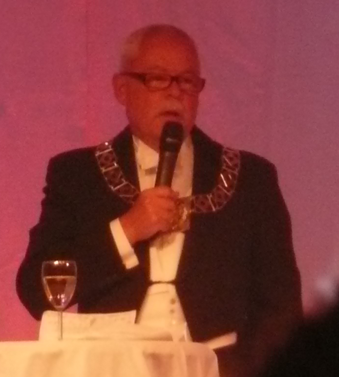 Lars Haikola, University Chancellor of Sweden, at Jönköping University installation ceremony